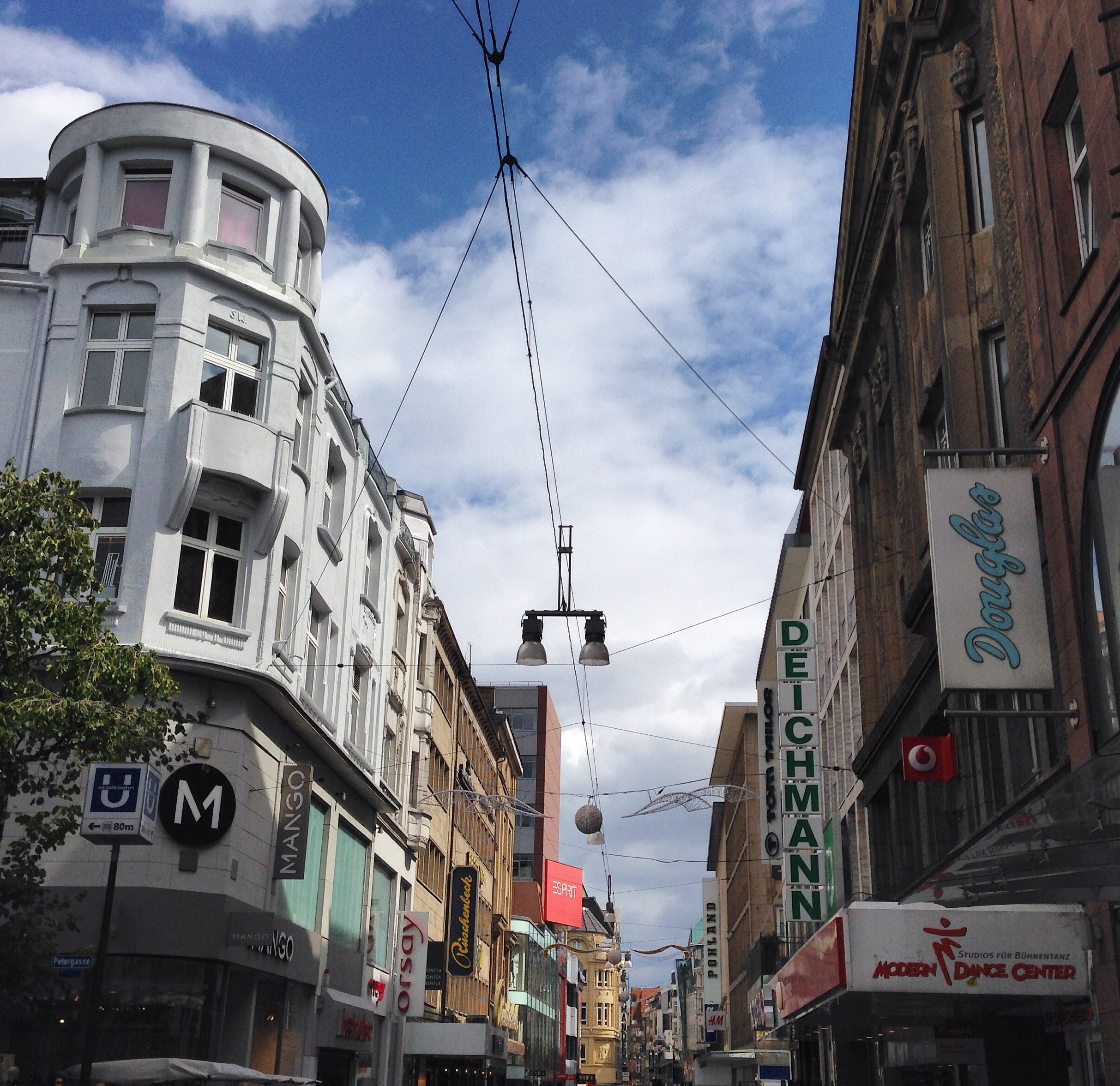 Shoppingstreet Westenhellweg Dortmund